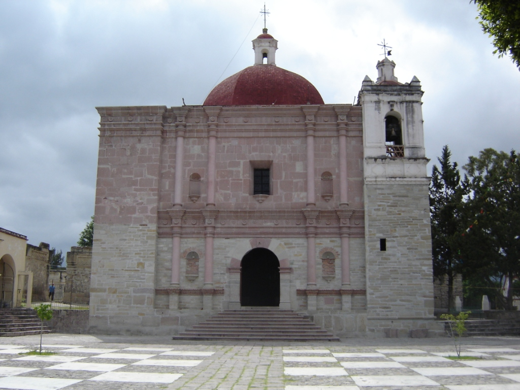 The church of Mitla next to the arqueological zone.